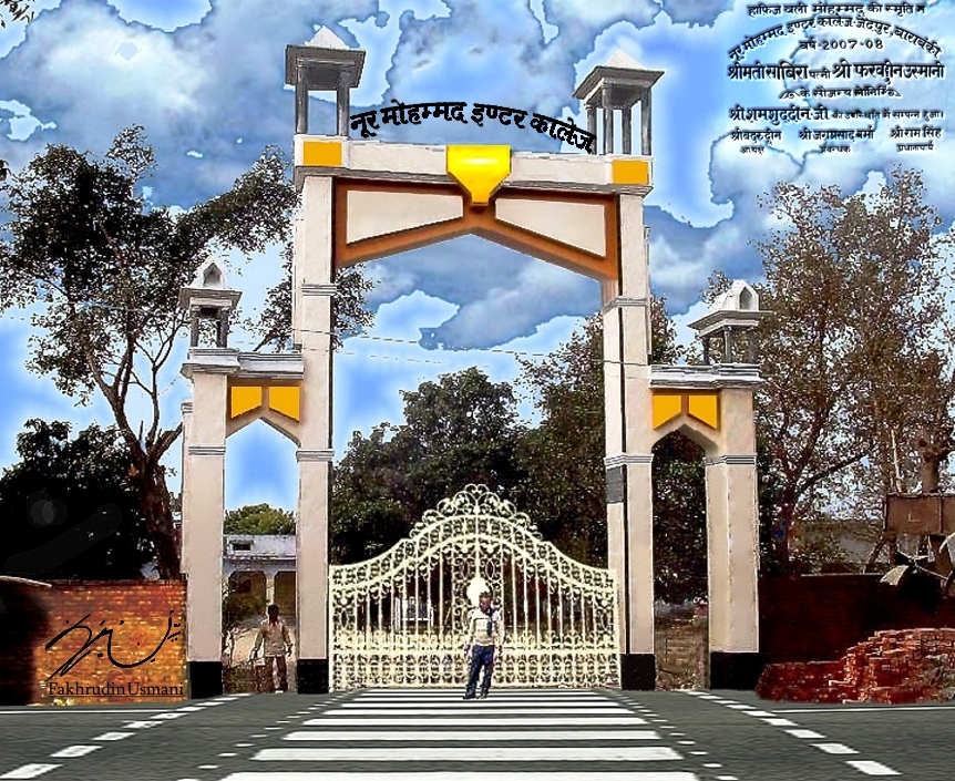 Main Gate of Noor Muhammad Inter College